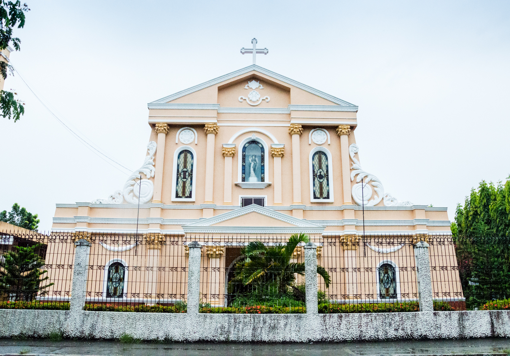 View of the church facade